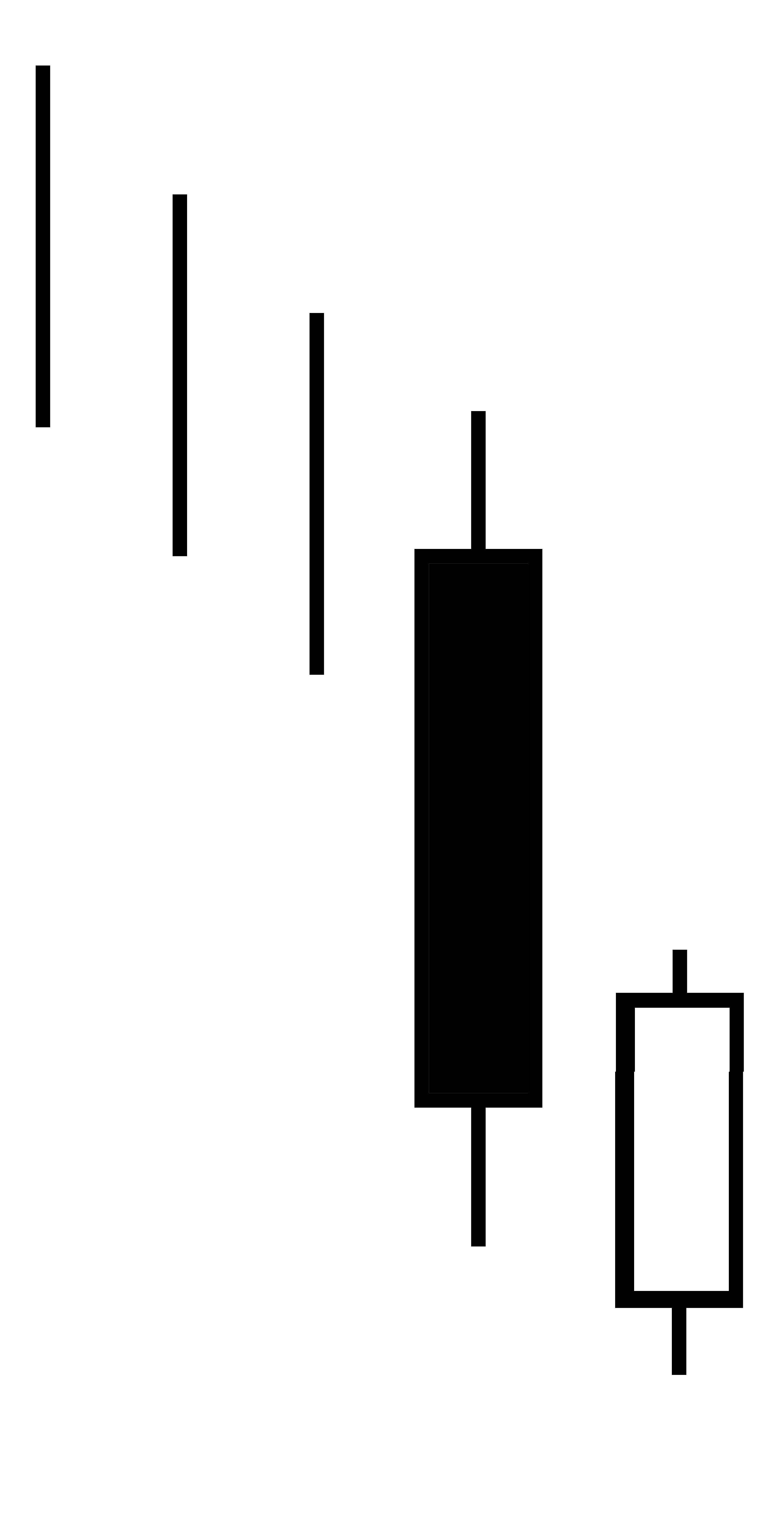 Bearish Thursting